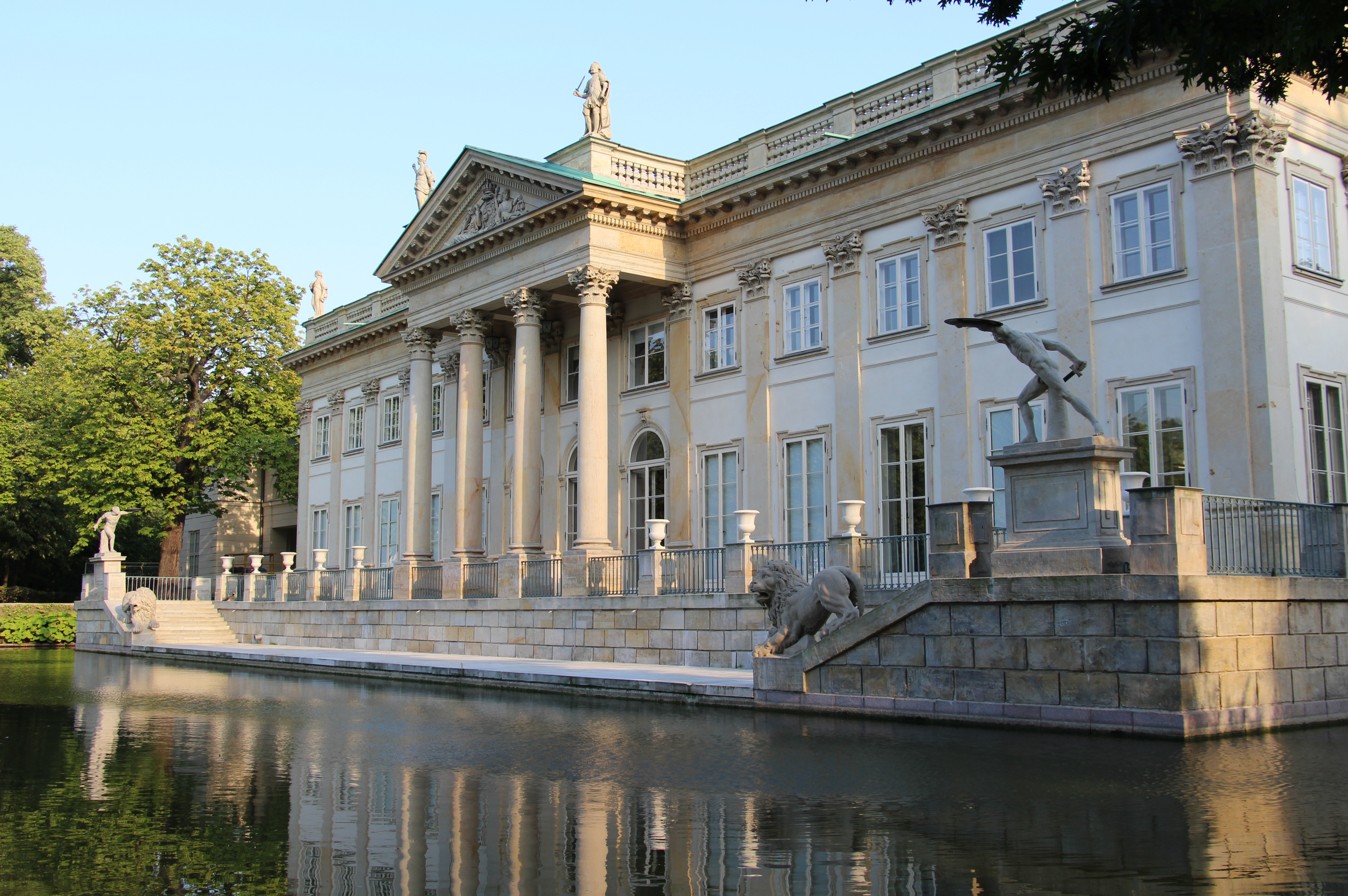 Agrykoli Marble bathhouse. Arch. Tylman Gamerski around 1683-89. Largely remodeled for Stanisław II Augustus. Arch. Domenico Merlini 1764-95